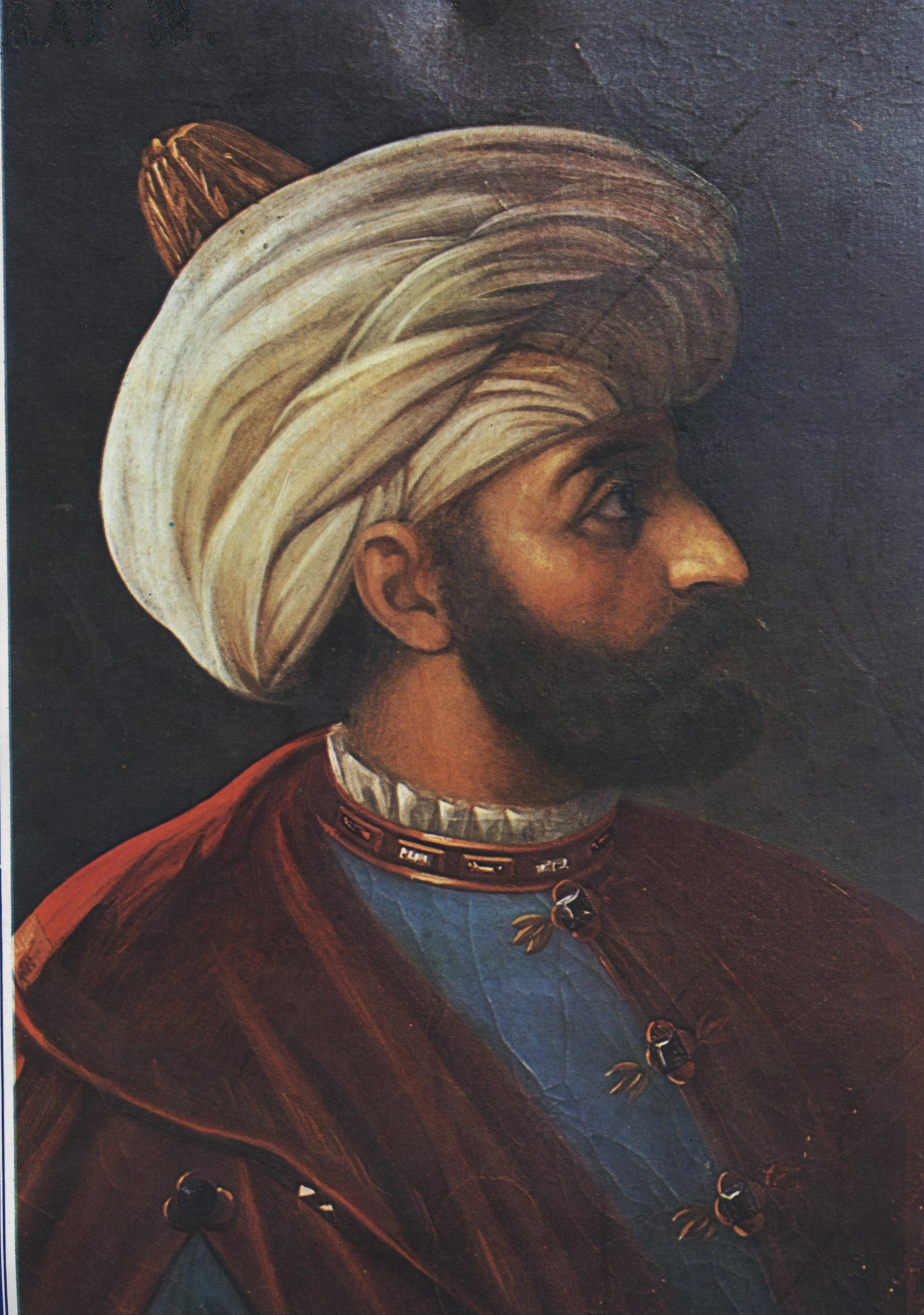 Mourad III